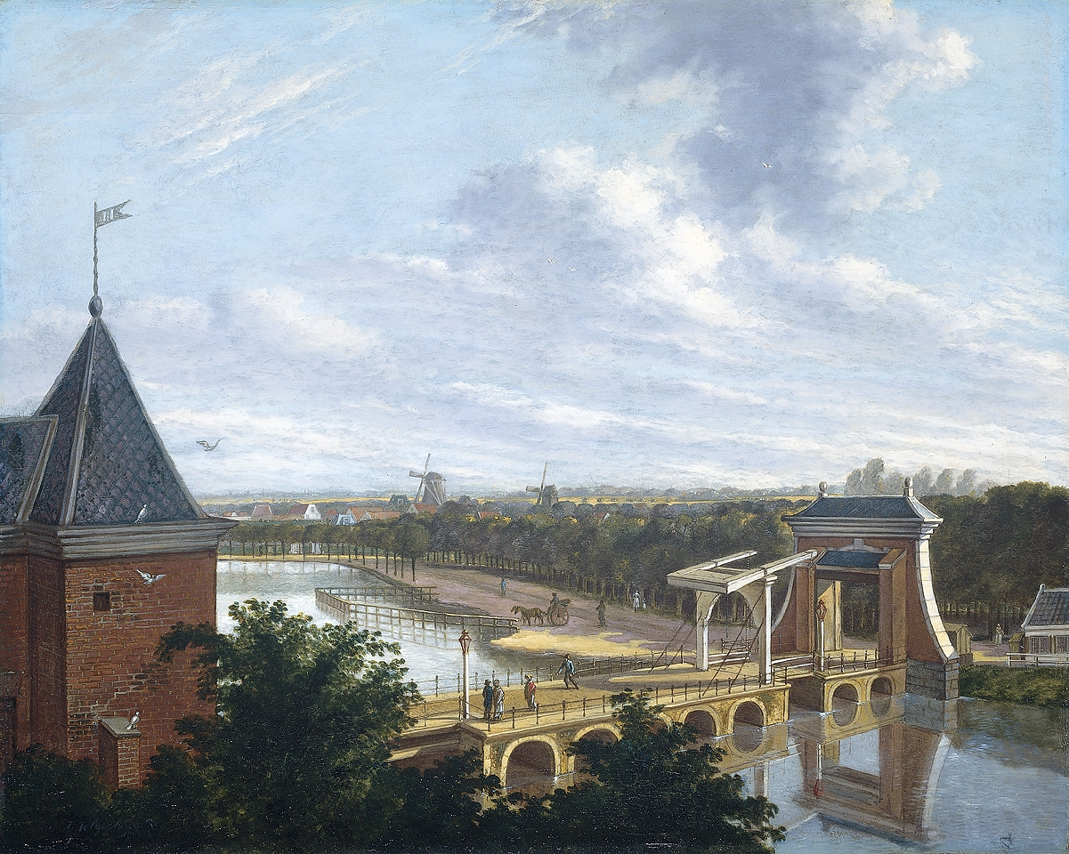 De outer canal of Amsterdam near the Leiden gate oil on panel 36.5 cm x 45 cm